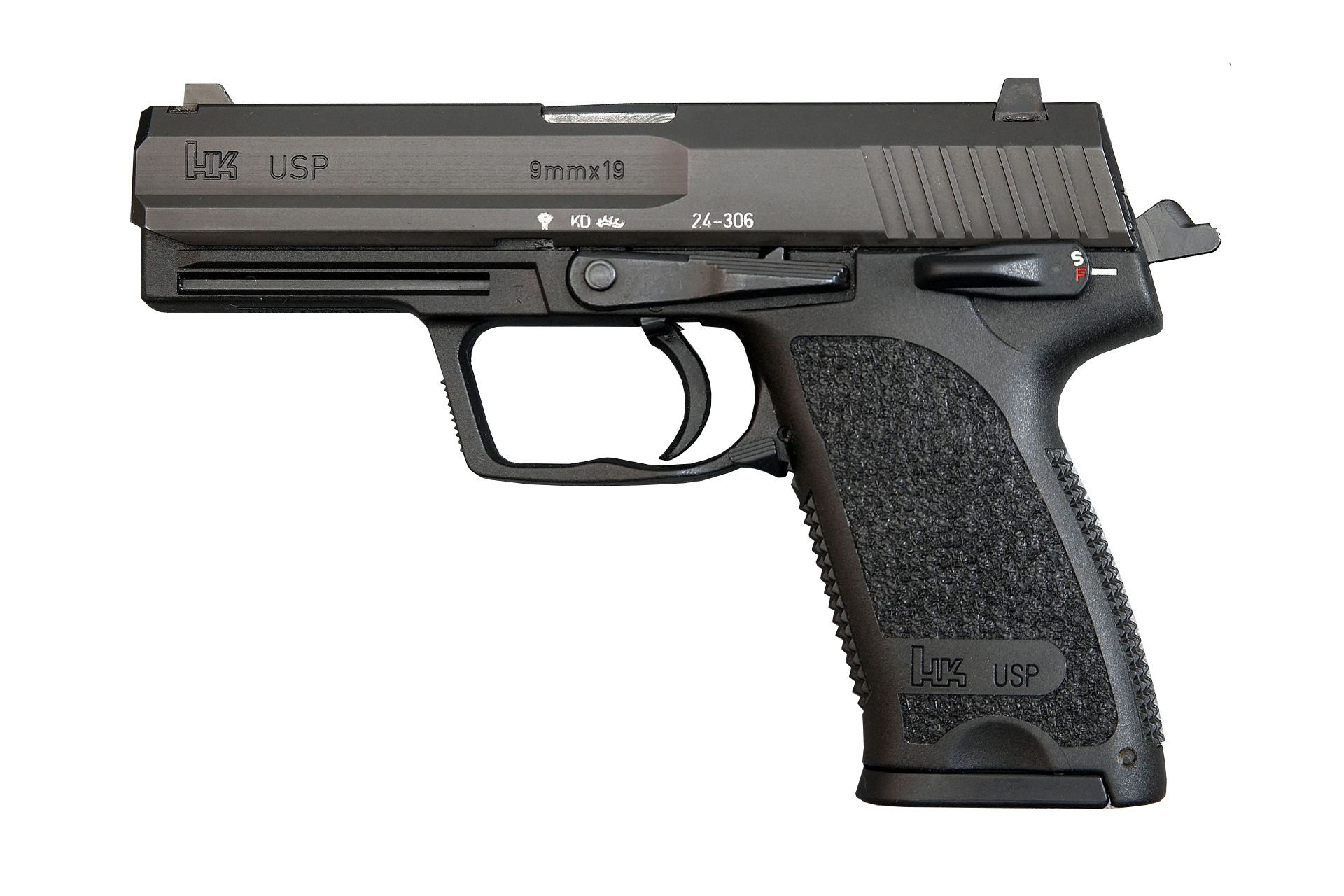 First-year USP 9mm